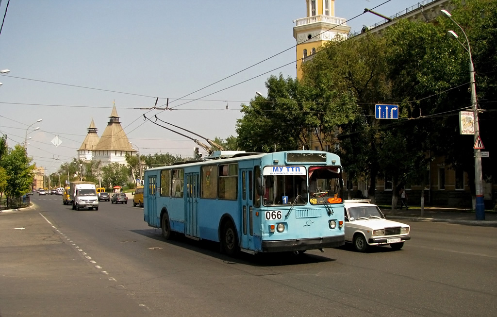 The trolley №066 (ZiU-682G model), Admiralteyskaya street, Astrakhan, Russia